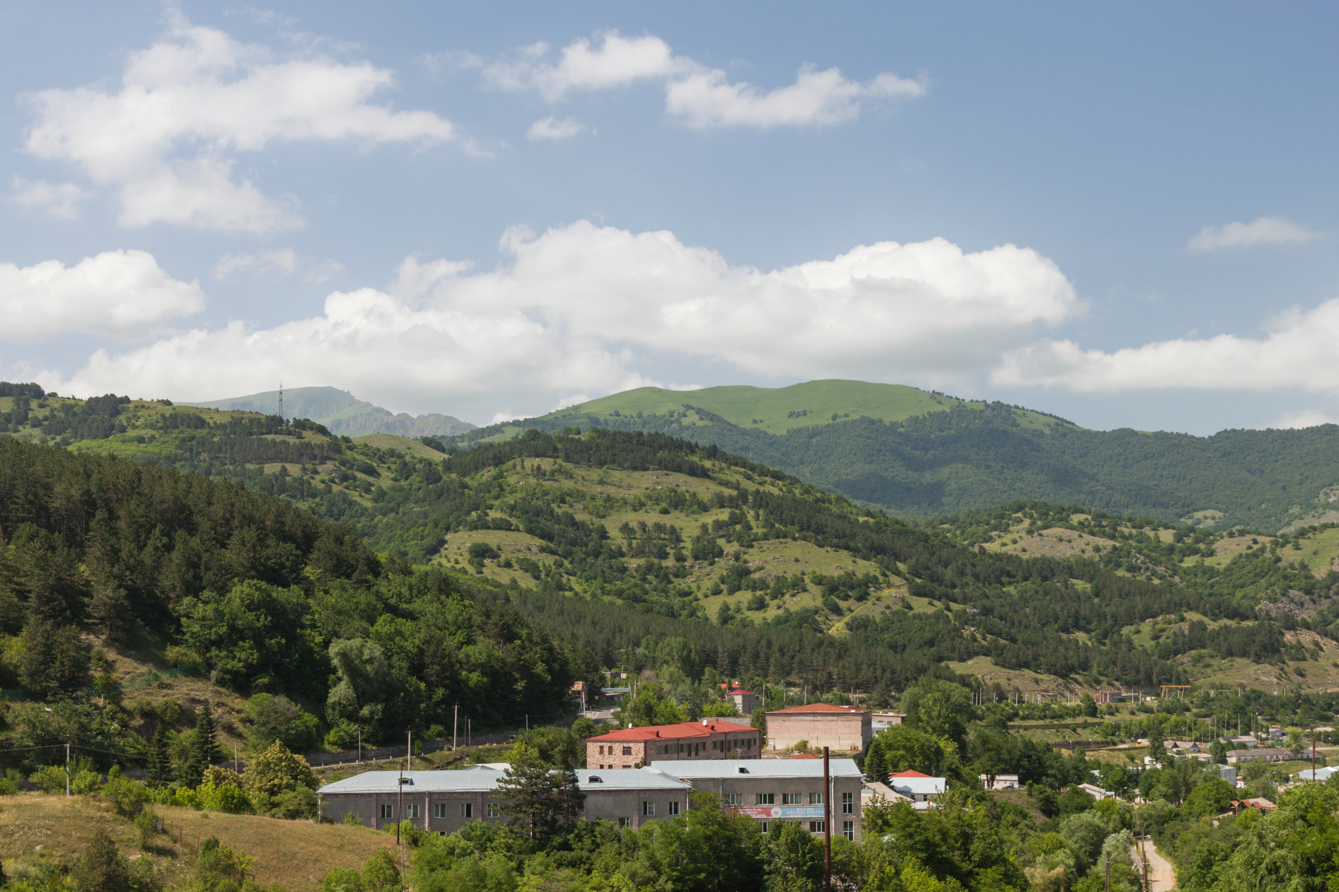 A view of the surrounding landscape. Dilijan, Tavush Province, Armenia.